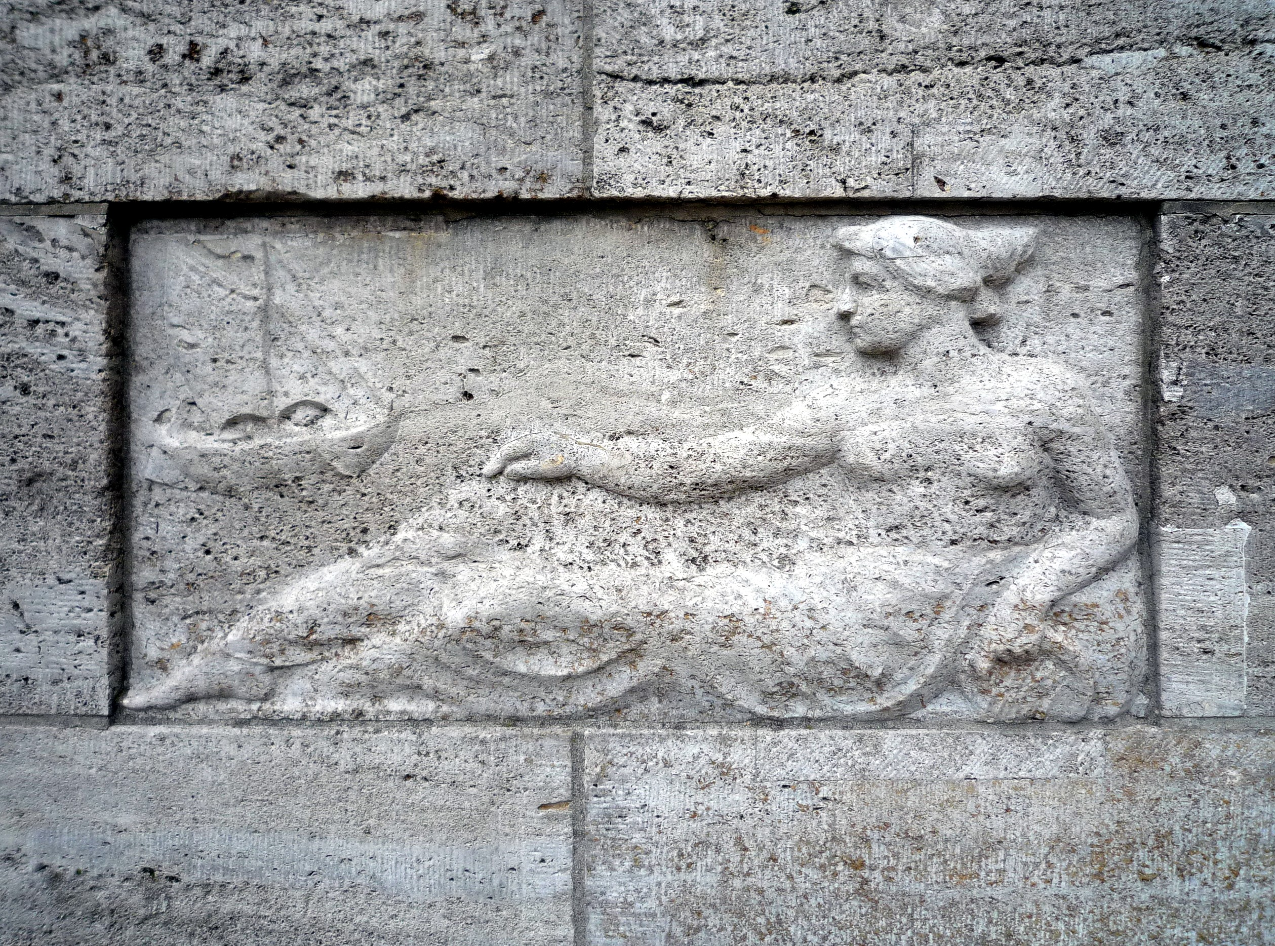 .Fountain at the "Lustgarten" in Berlin-Mitte/Germany. Created 1916 by Robert Schirmer. Detail.